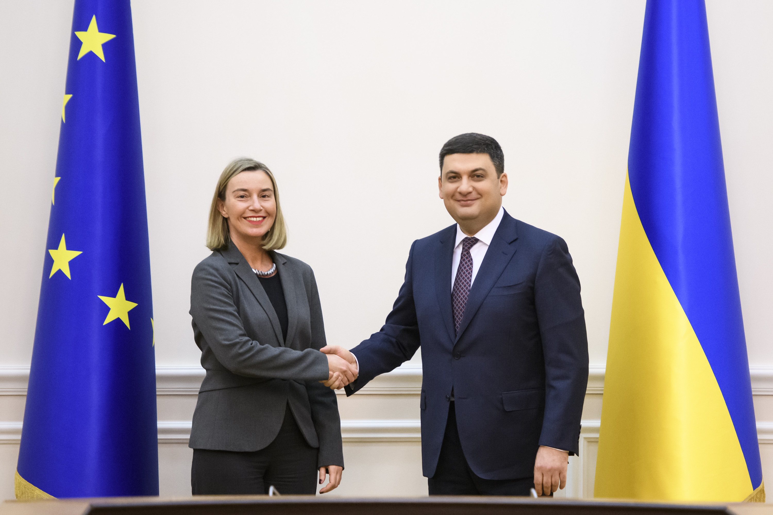 Володимир Гройсман зустрівся з Високим представником ЄС із закордонних справ та безпекової політики Федерікою Могеріні опубліковано 12 березня 2018 року о 11:06